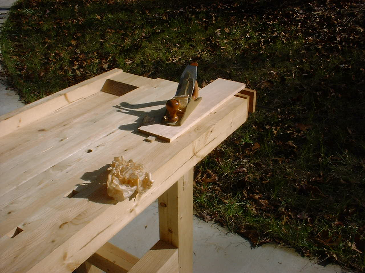 A bench dog in use